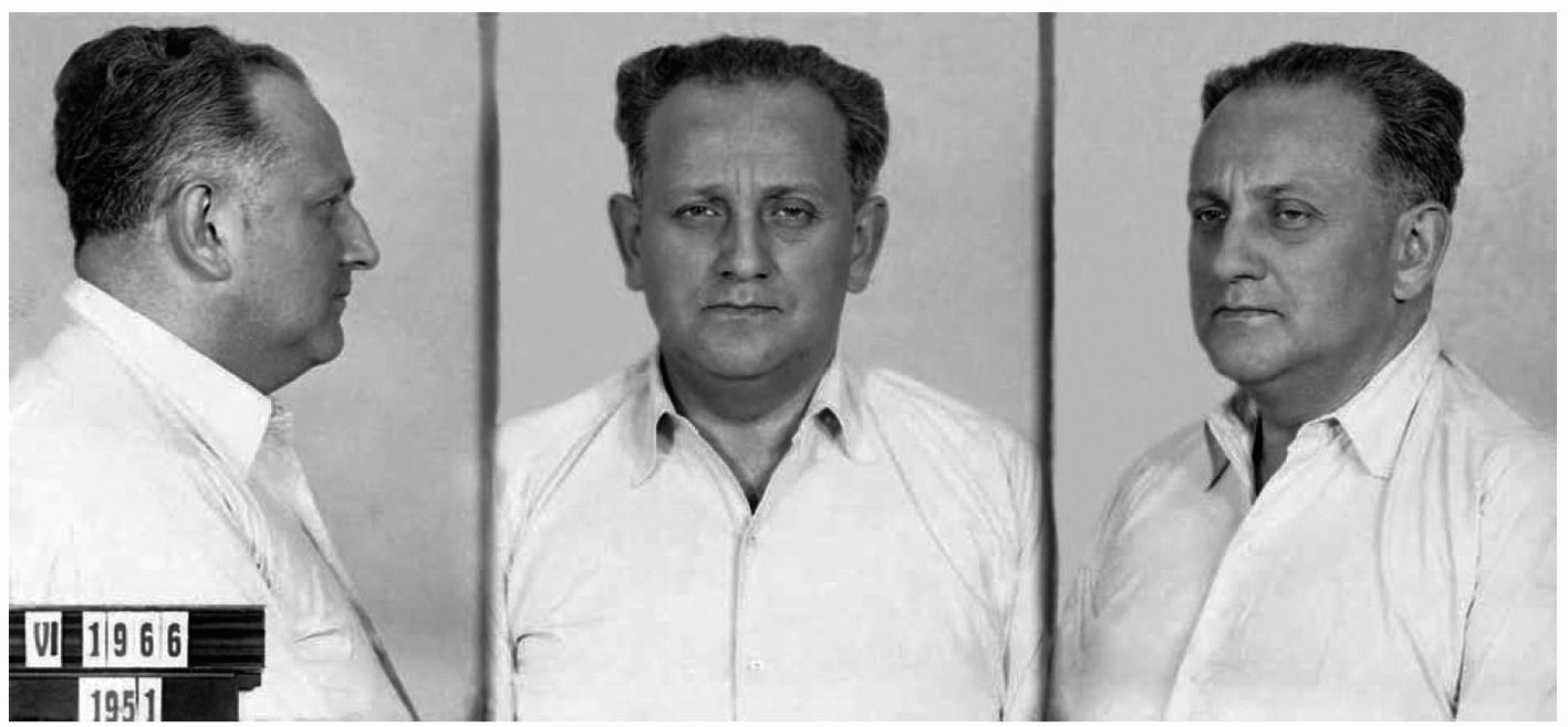 Prisoner photograph: Brigadier General and Deputy Defense Secretary Bedřich Reicin after his arrest in 1951. Bedřich Reicin (* 1911 - † 1952) came from a Jewish family in Plzeň (formerly Reinziger or Reicinger). From the thirties of the twentieth century, he was a functionary of the youth communist organization and a co-worker in the Rudé Právo newspaper. In 1939, he was arrested by the Gestapo and, after his release, escaped to the Soviet Union, where he was soon arrested too. In 1942, he joined the Foreign Army, where he acted as an educational officer. In 1945 he became Chief of Military Intelligence Service OBZ in the Czechoslovak Army. After the communist coup in 1948, he was provably involved in the "purge" of the army from the enemies of the Communist Party of Czechoslovakia (KSČ). In the early fifties of the twentieth century, however, he became a victim in connection with the "Rudolf Slánský process" and was eventually executed to dead in Prague in 1952.